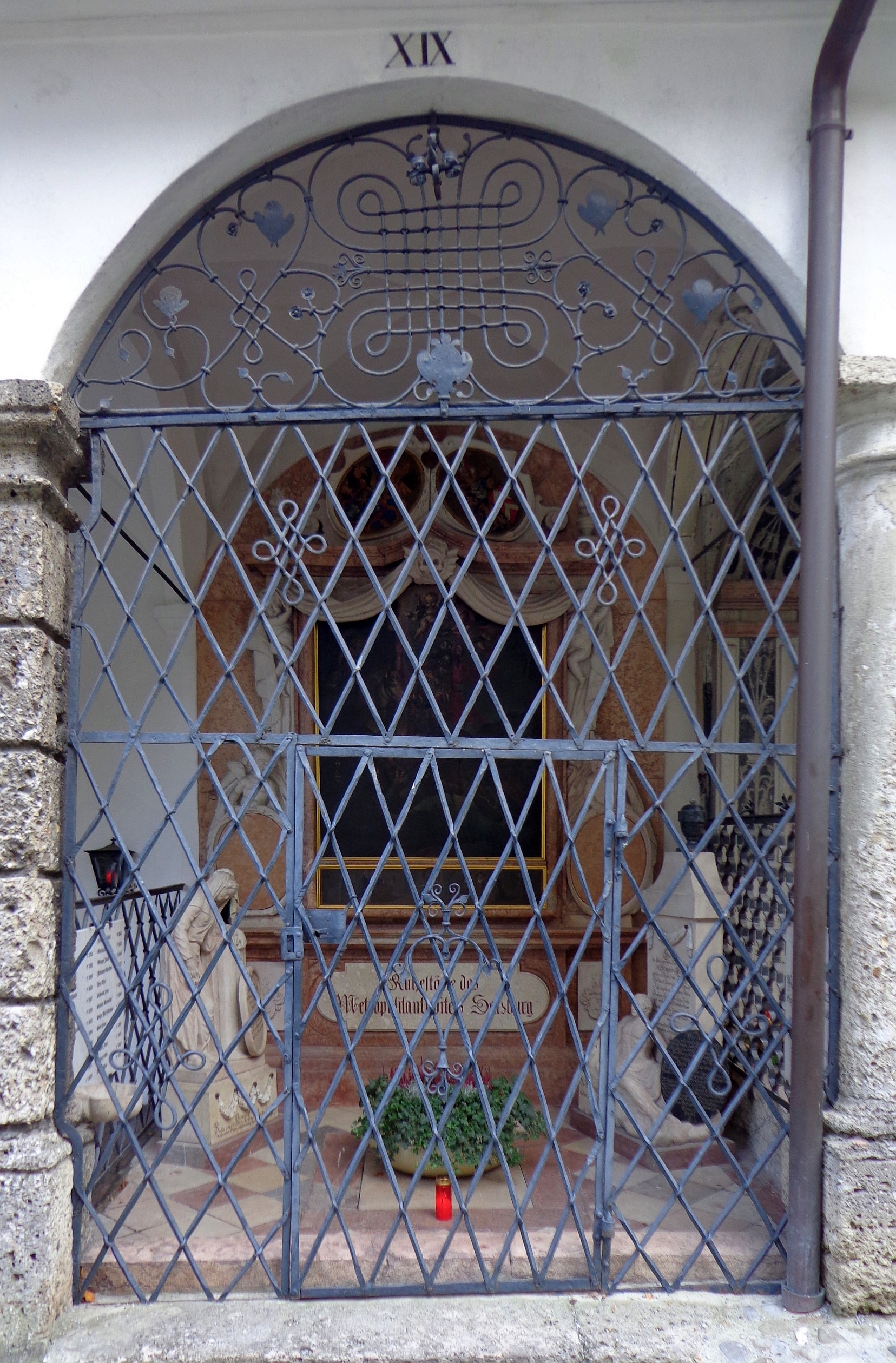 Crypt 19 (Petersfriedhof Salzburg) Domkapitel - from outside